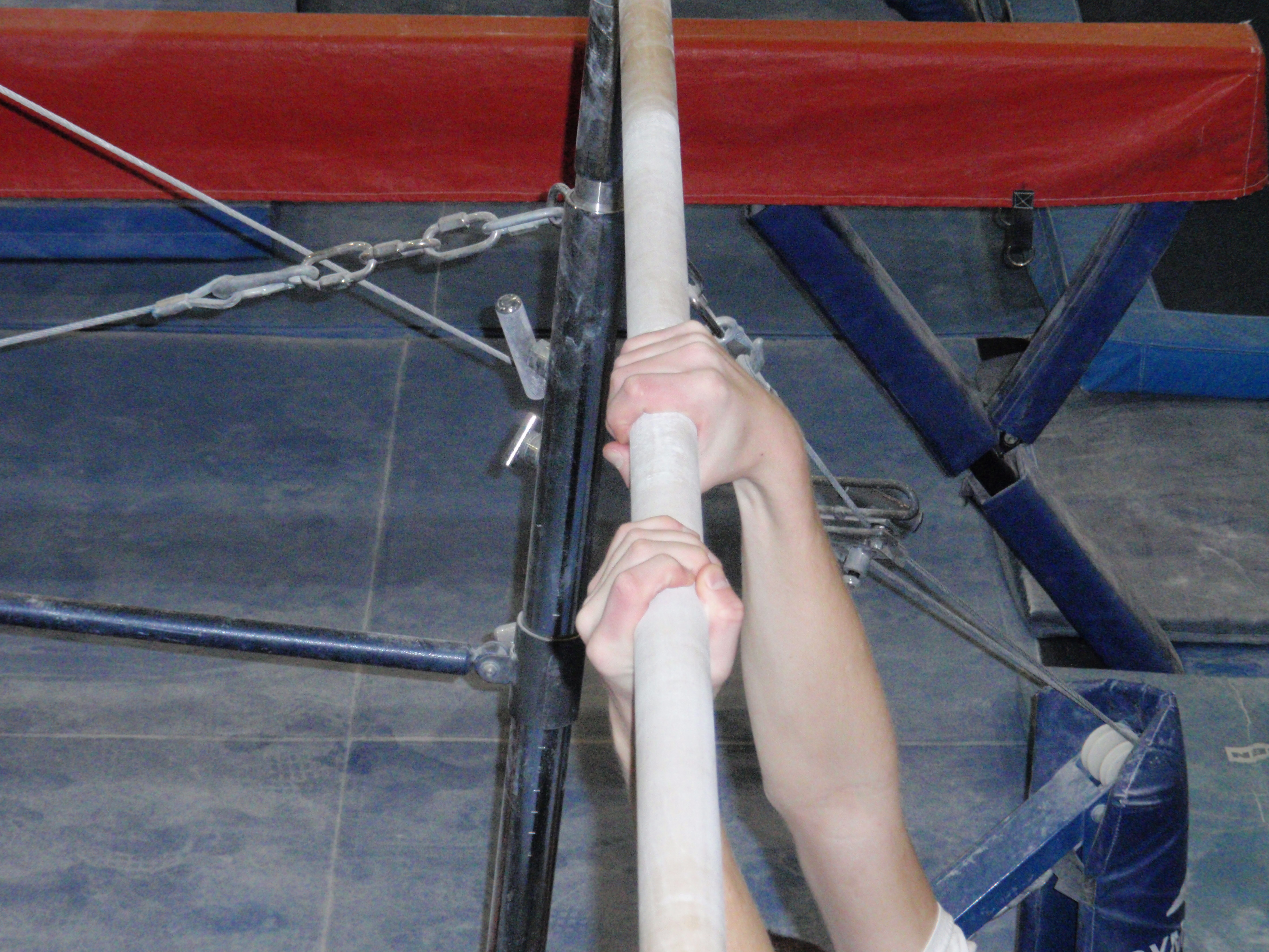 Gymnast using mixed grip.